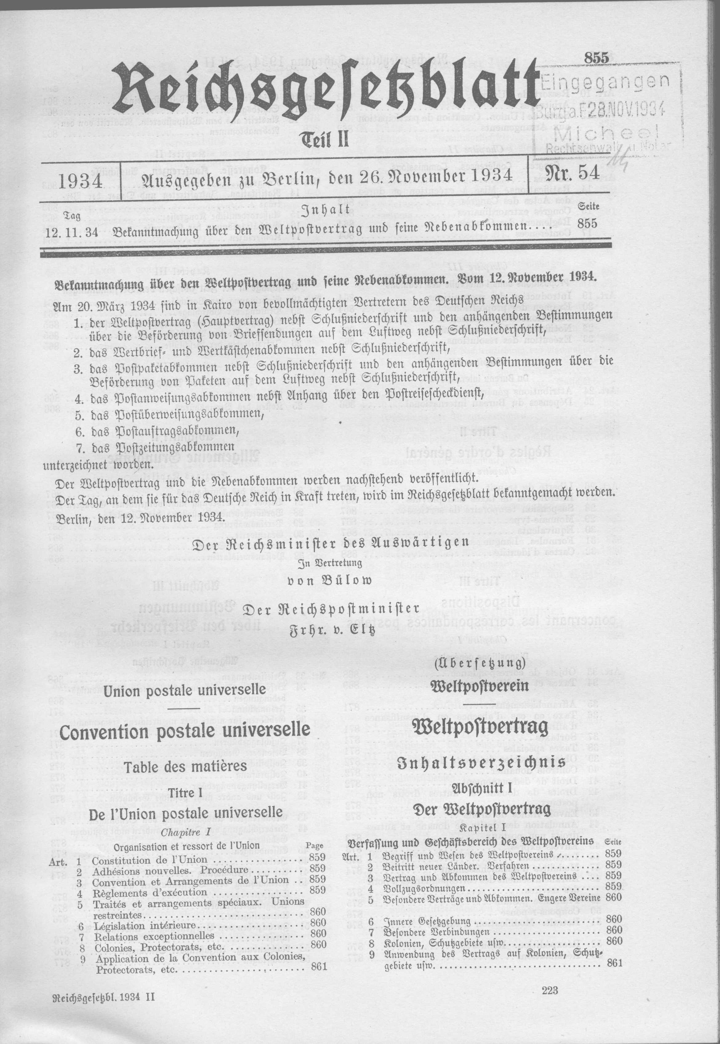 Scan from the Imperial Law Gazette of Germany, 1934, part 2